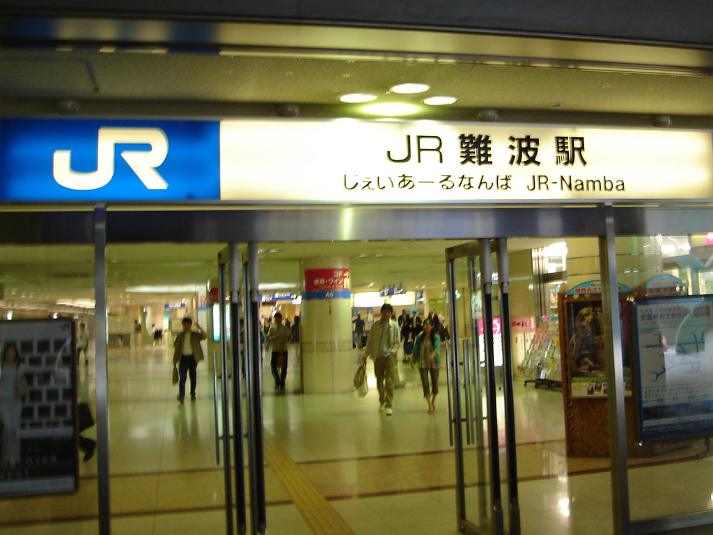 Entrance to JR Namba Station in Osaka, Japan. Source: [1]